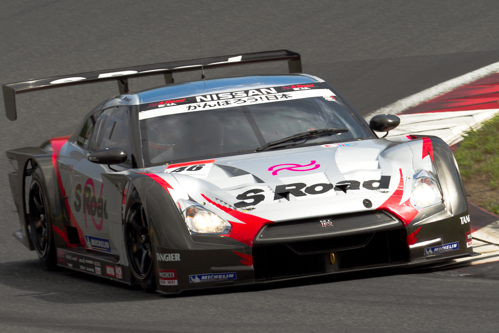 Super GT 2011 Rd.6 Fuji GT 250km: Ronnie Quintarelli (Mola) driving the Nissan GT-R GT500.